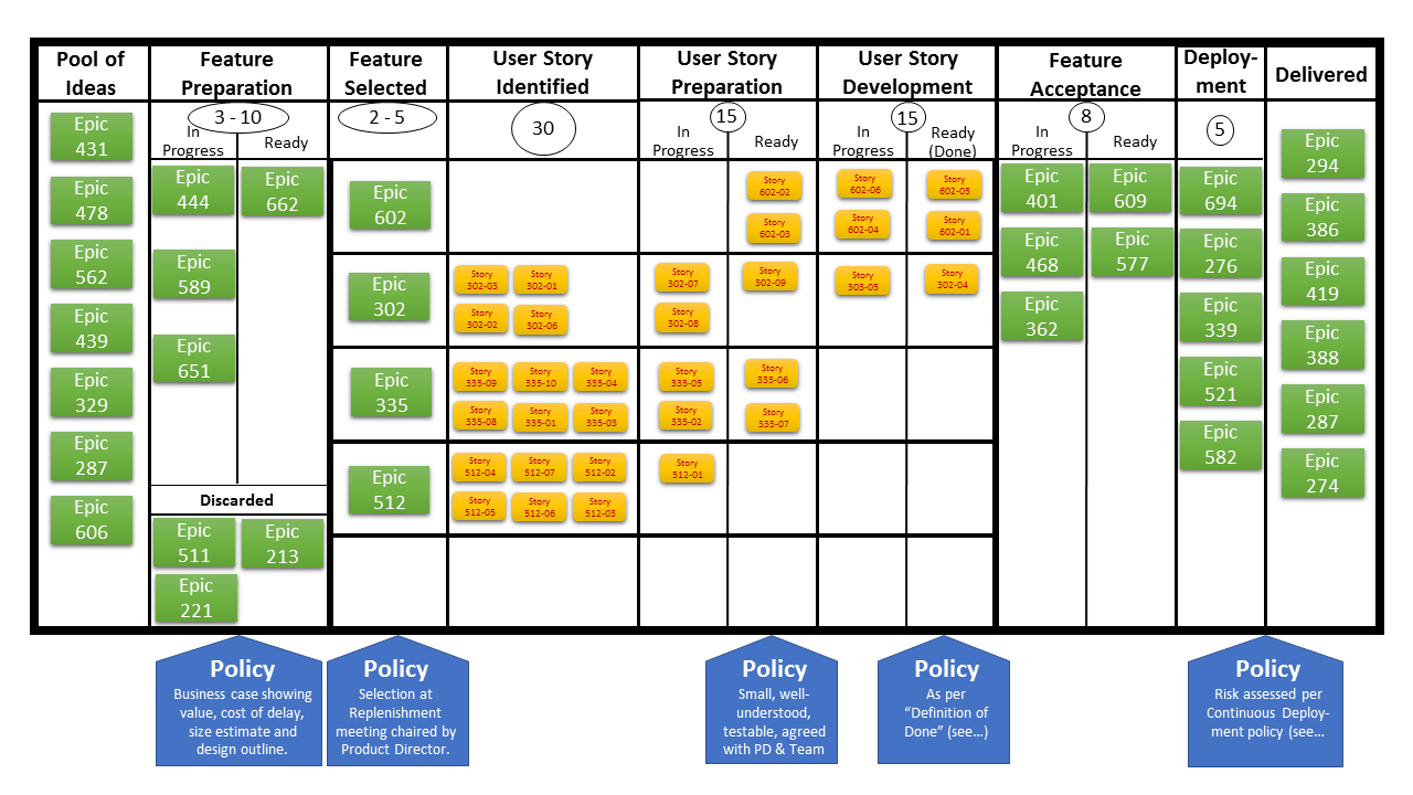 Shows a typical Kanban board with 2 work item types (Epics and User Stories). Upstream process selects suitable Features/Epics for development, some of which are selected, some discarded. Selected Features are broken down into User Stories which are developed and tested. The Feature is integrated and accepted then deployed. The "commitment point" is the "Feature Selected" column. The "delivery point" is the "Delivered" column. This board is similar to many kanban boards used in development but it is not a representation of any specific board. Specific similarities are coincidental.